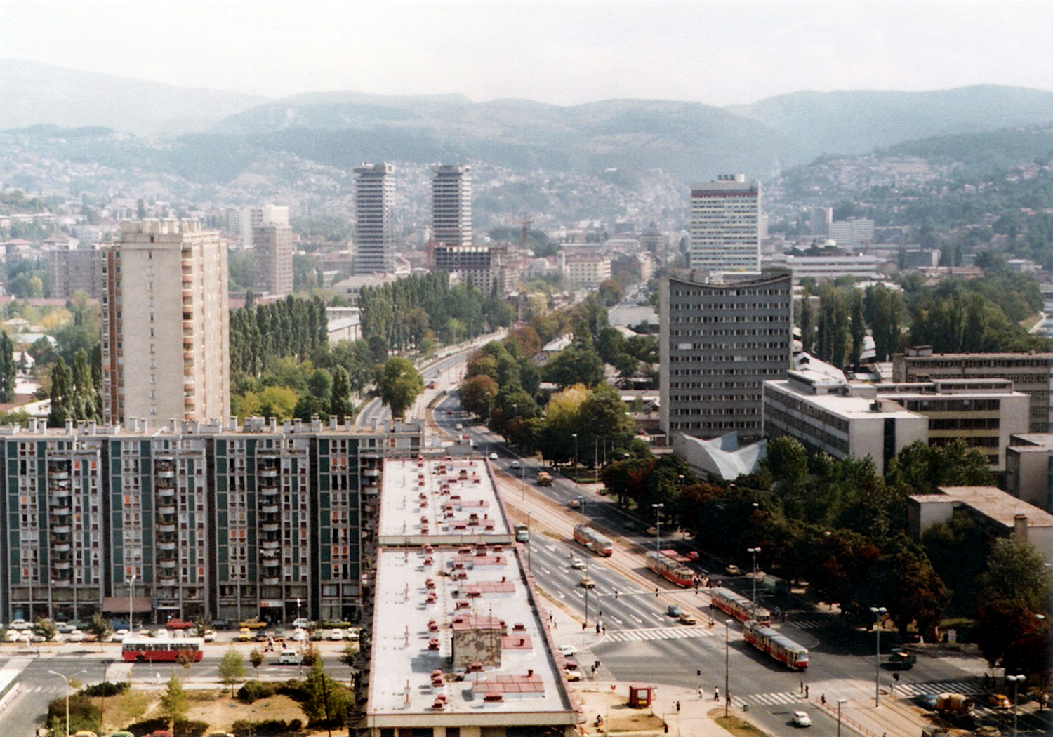 Four trams Tatra K2 at Pofalići on September 22, 1982